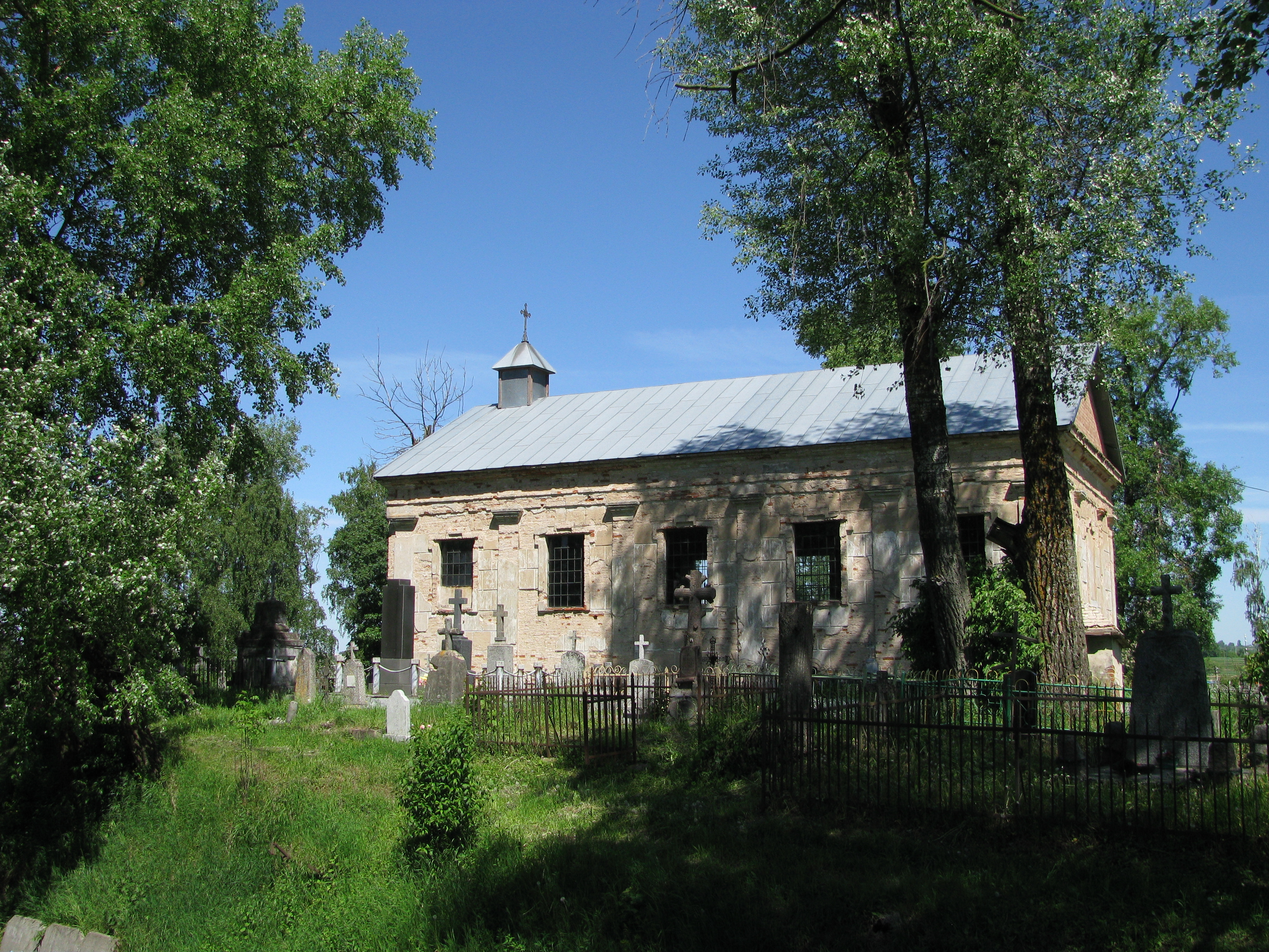 Беларуская (тарашкевіца): Ільлінская капліца. г. Глыбокае This is a photo of Belarusian heritage monument. Reference number: 213Г000364 ( WLM)